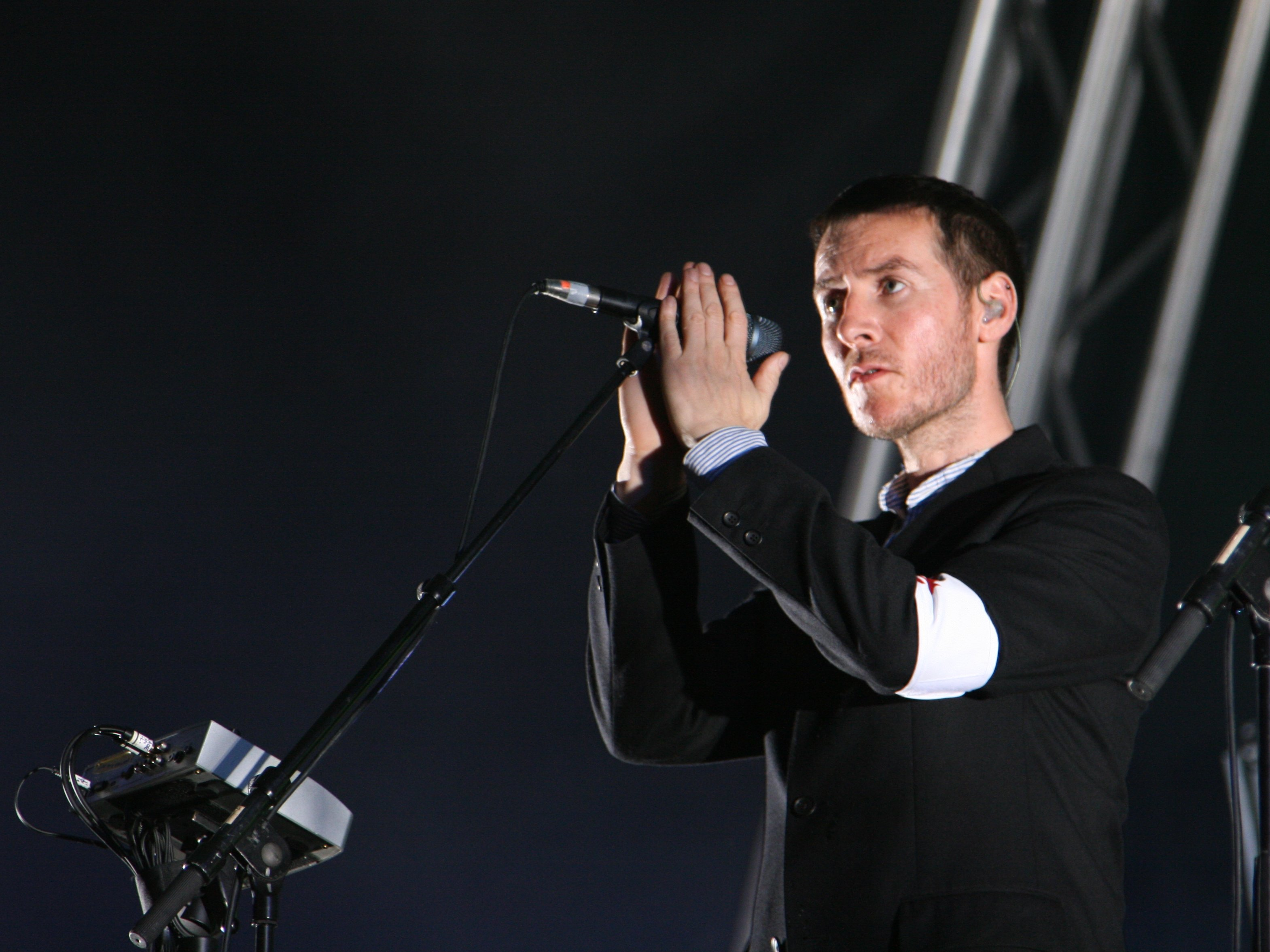 Robert Del Naja (membre fondateur de Massive Attack) - concert à Barcelone (septembre 2007)Robert Del Naja (founding member of Massive Attack) - concert in Barcelona (september 2007)